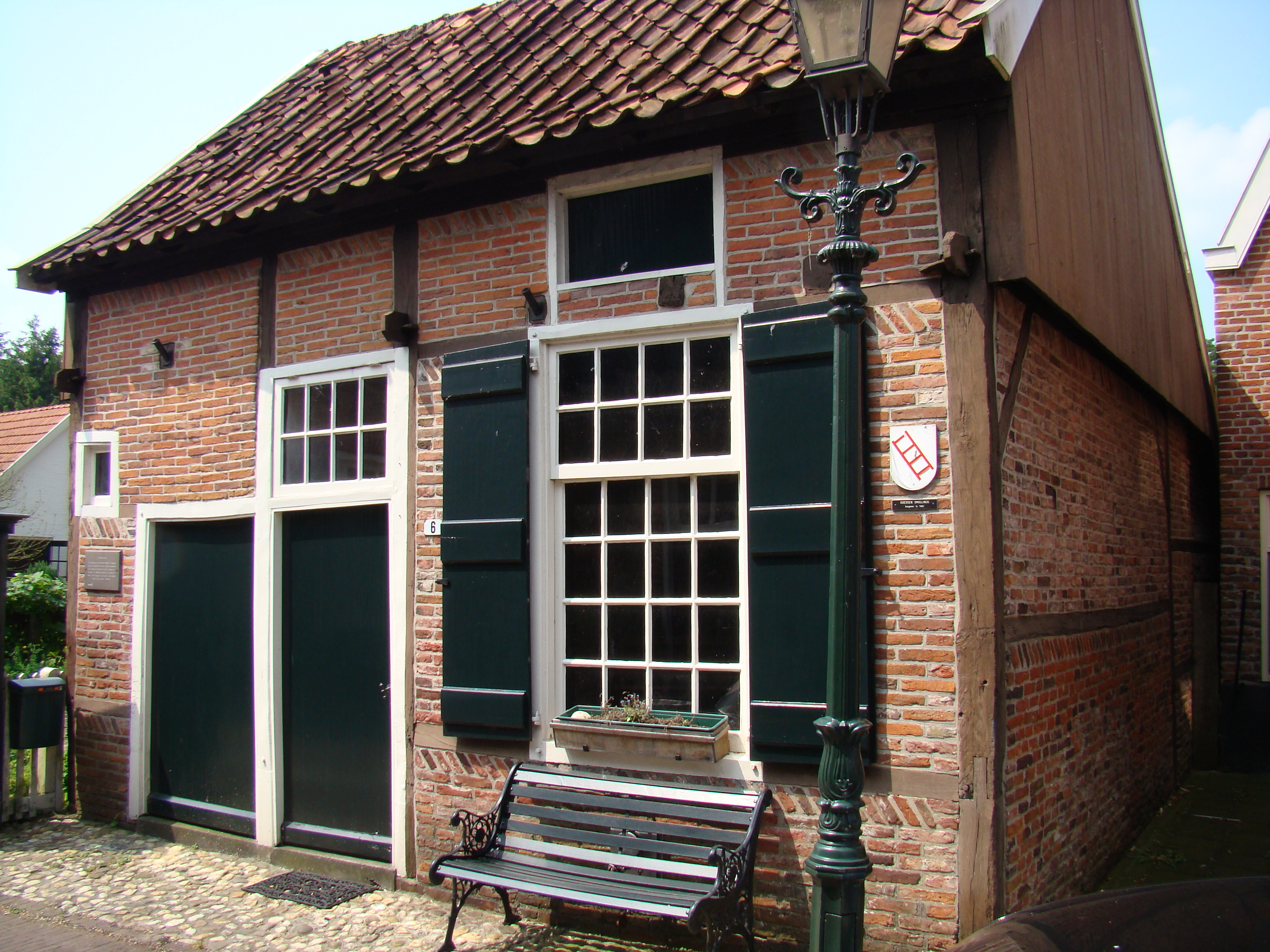 Little 18th century house at Bredevoort (Netherlands) (jansenshuusken or boerderi'jken)